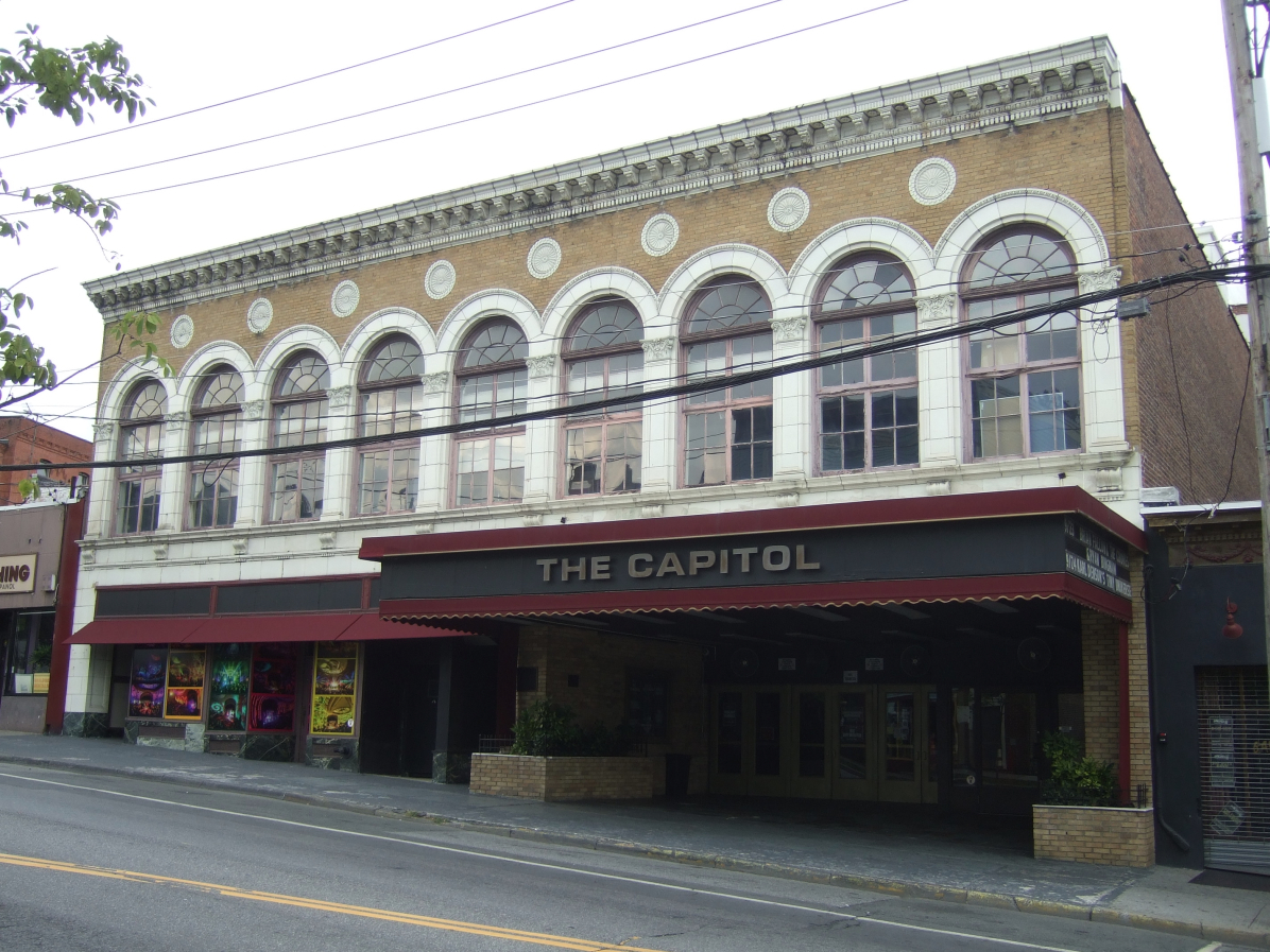 The Capitol Theatre, Port Chester, NY. Opened as a playhouse in 1926, the theatre was designed by the architect Thomas W. Lamb. In the 1960s it was turned into a performance space and featured live acts such as the Grateful Dead, Janis Joplin, and Pink Floyd. After being repurposed as a catering hall in the late 1990's, the theatre reopened as a rock venue in September 2012.